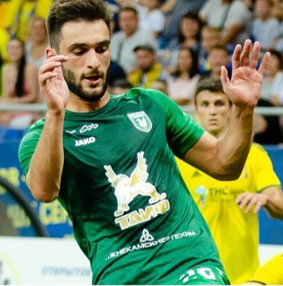 Beka Mikeltadze with FC Rubin Kazan in a game against FC Rostov.